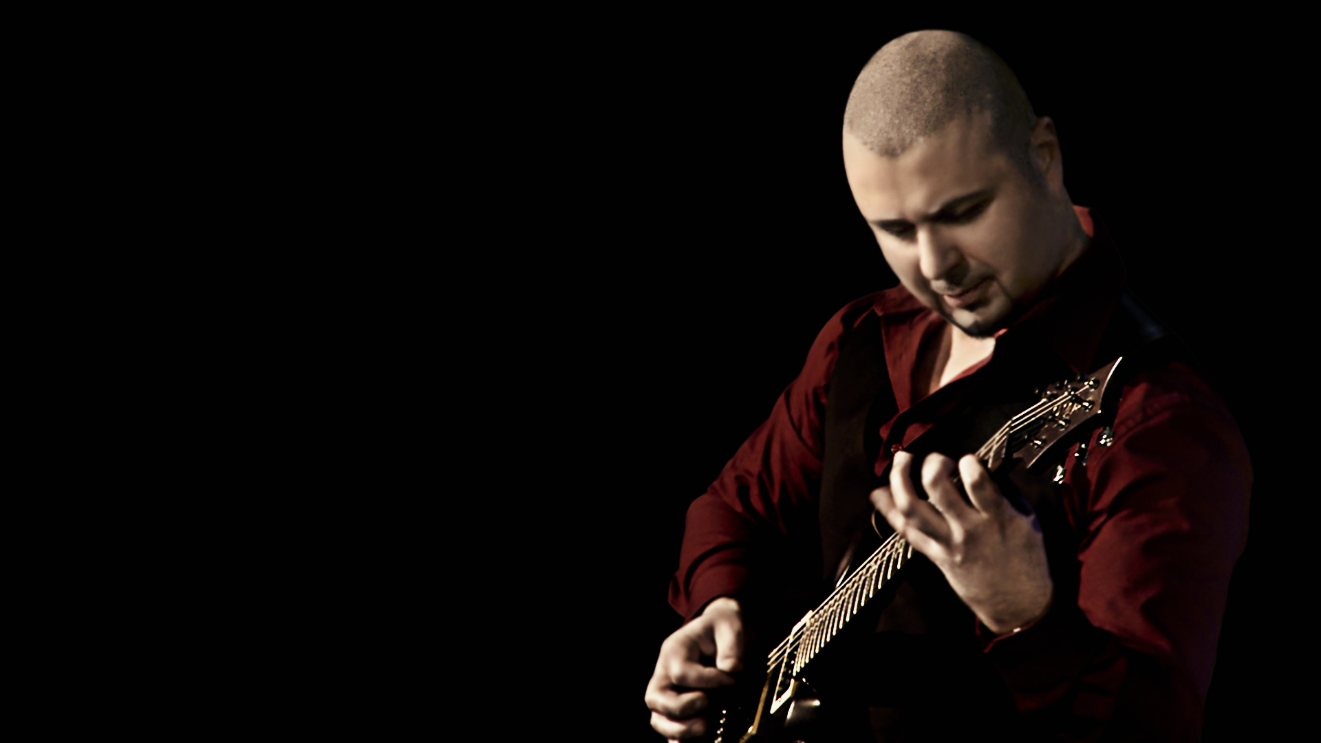 Reuf Sipović